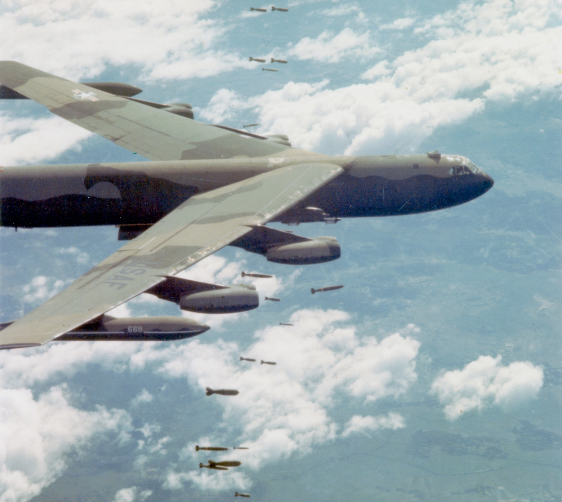 A U.S. Air Force Boeing B-52D-35-BW Stratofortress (s/n 52-669) dropping bombs over Vietnam. This aircraft was hit by SA-2 surface-to-air missile over North Vietnam during the "Linebacker II" offensive on 31 December 1972 and crashed in in Laos. The crew of six ejected, but only five were rescued.